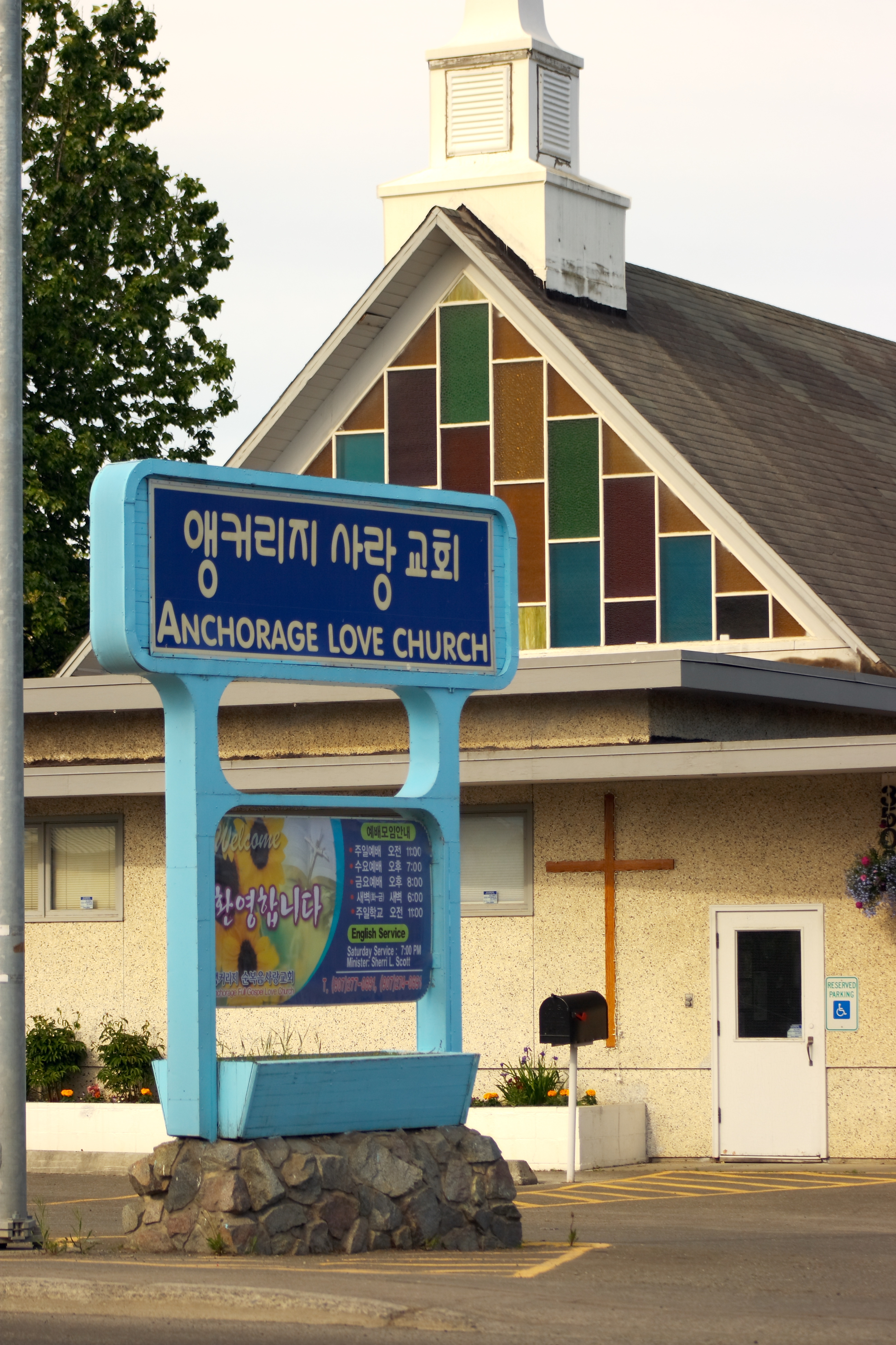 Church in Anchorage, Alaska. June 2010.